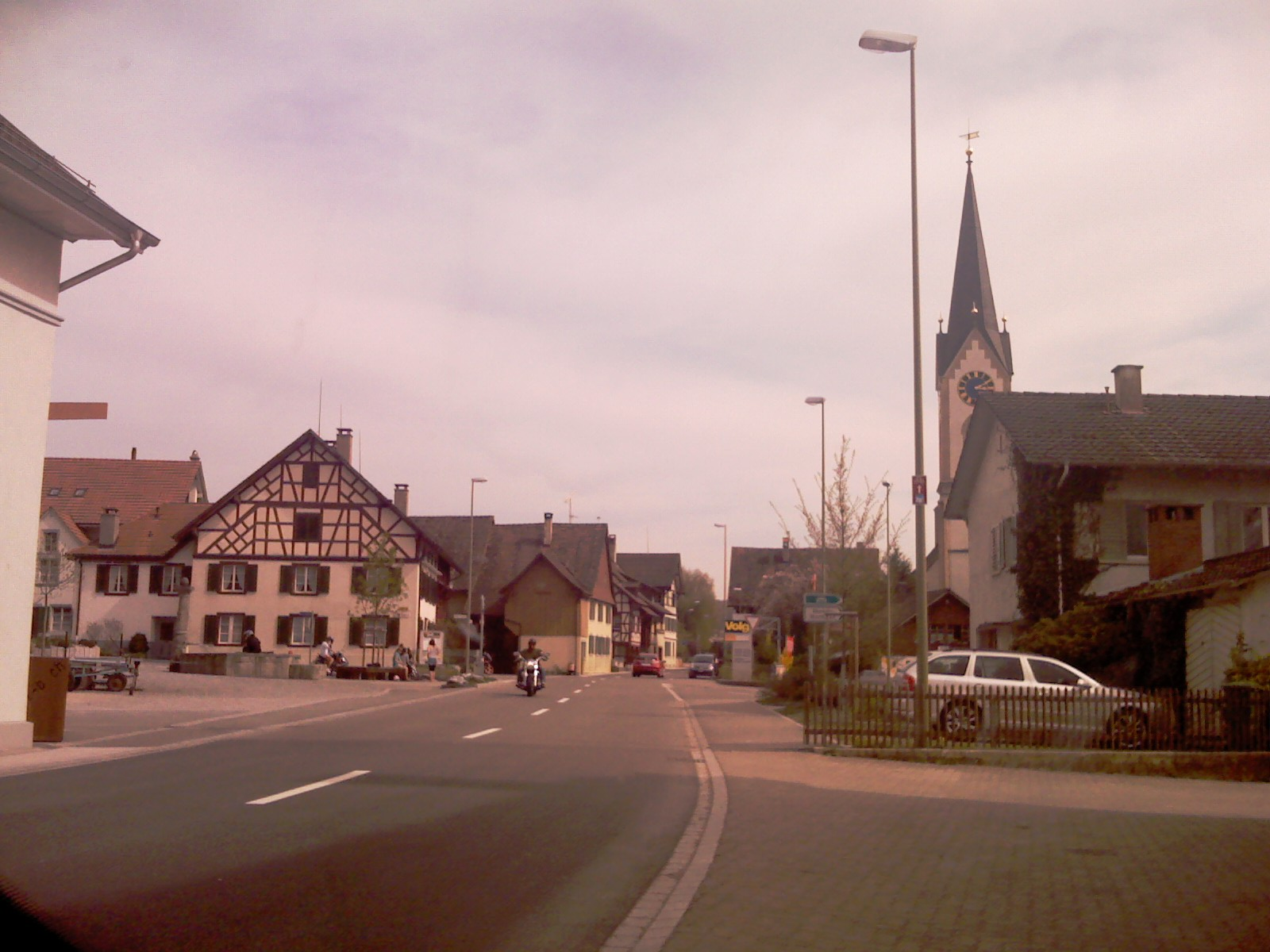 Village centre of Benken, Canton Zürich, SwitzerlandEsperanto: Vilaĝocentro de Benken, Kantono Zuriko, Svislando